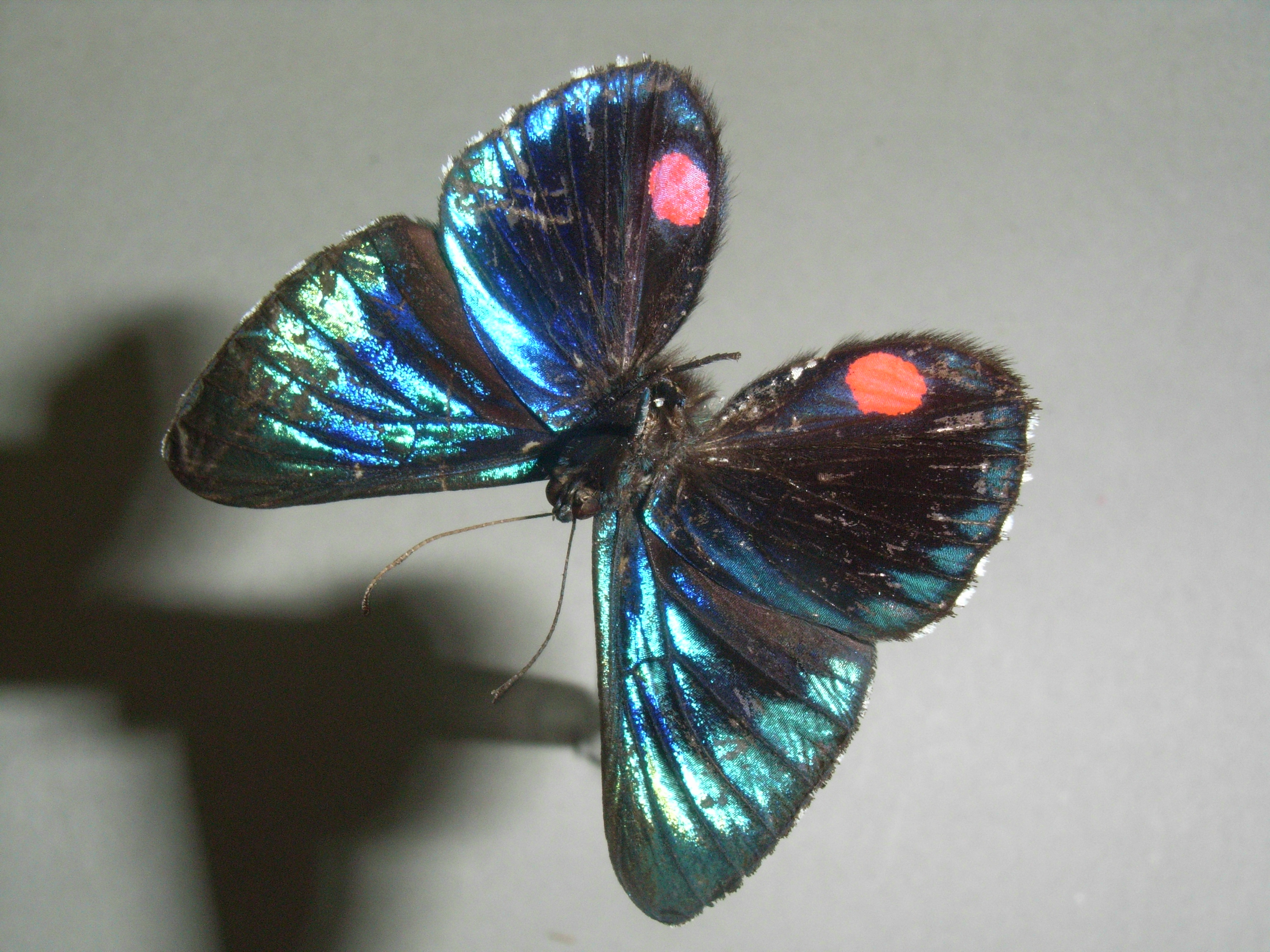 Necyria duellona:Riodinidae